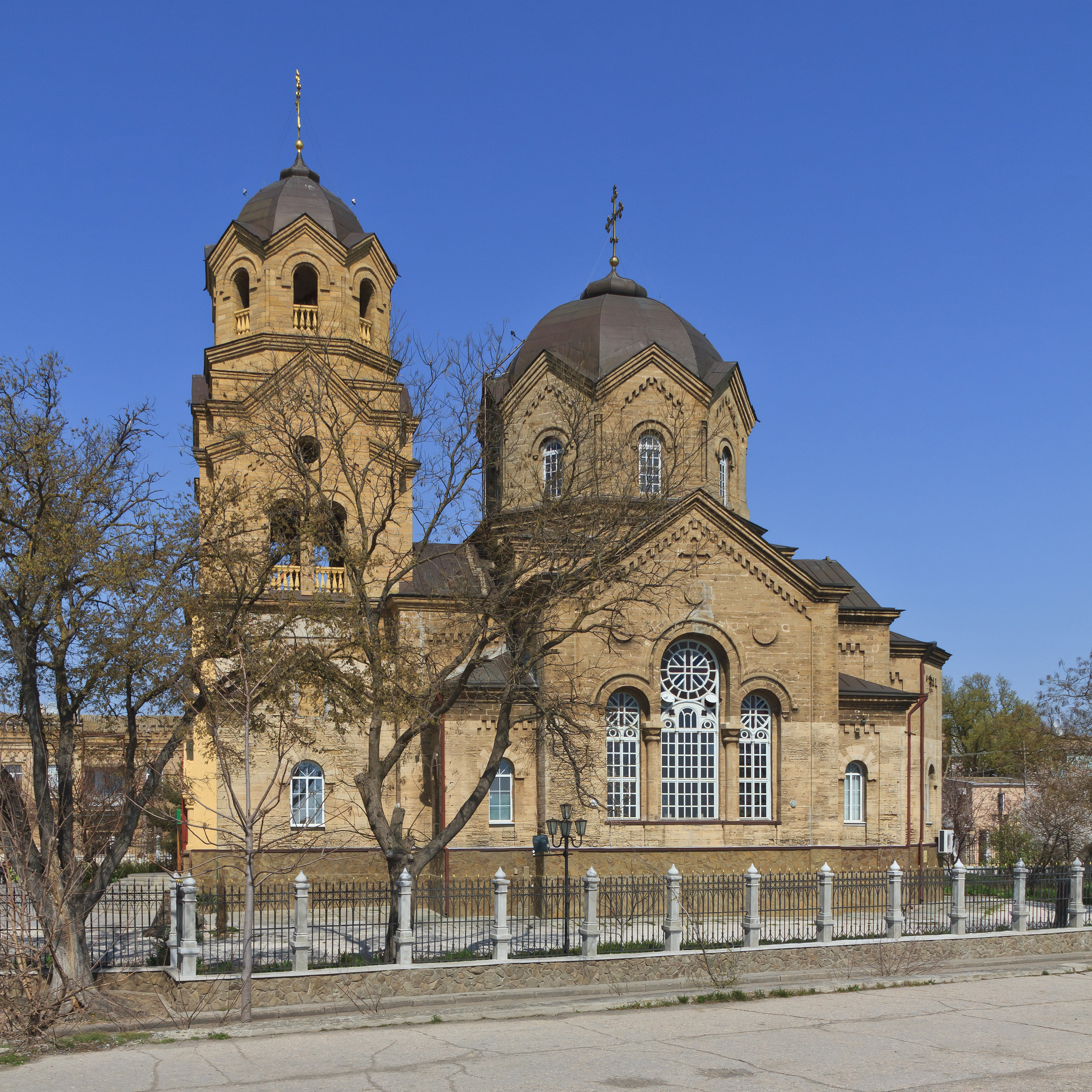 Church of St. Elijah in Eupatoria, Crimean Peninsula.